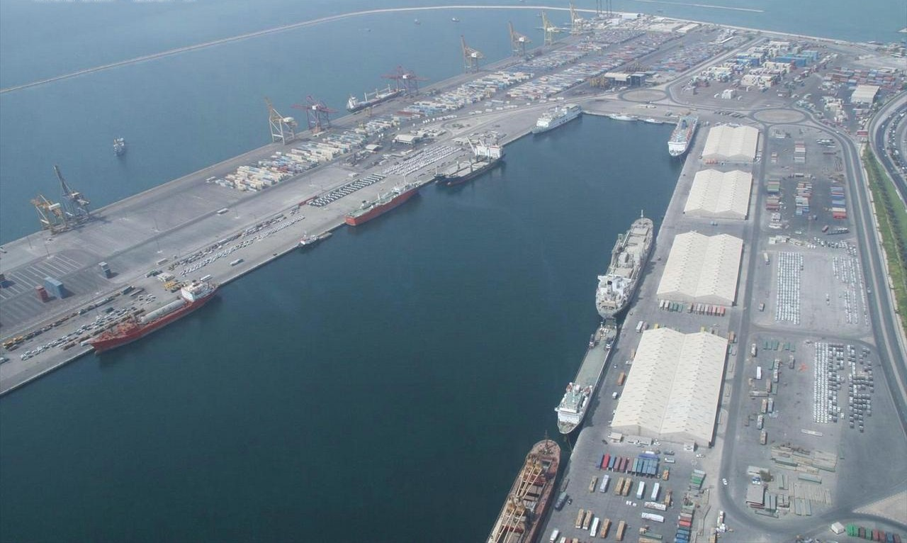 This is a photo showing Port Rashid in Dubai, United Arab Emirates as seen from the air on 1 May 2007.